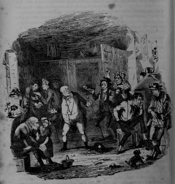 Hablot Knight Browne - The Pickwick Papers, Mr. Pickwick in debtor's prison